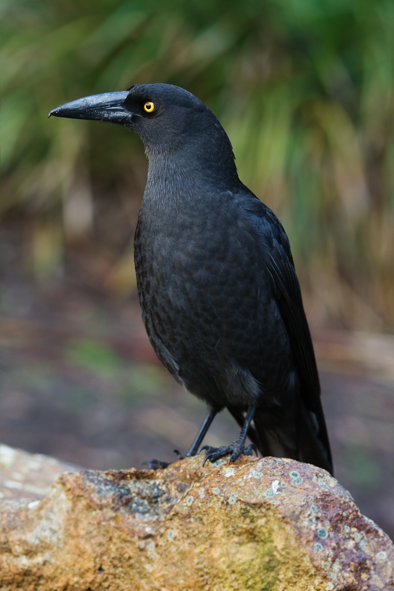 Black Currawong (Strepera fuliginosa). Fortesque Bay, Tasman peninsula, Tasmania, Australia.